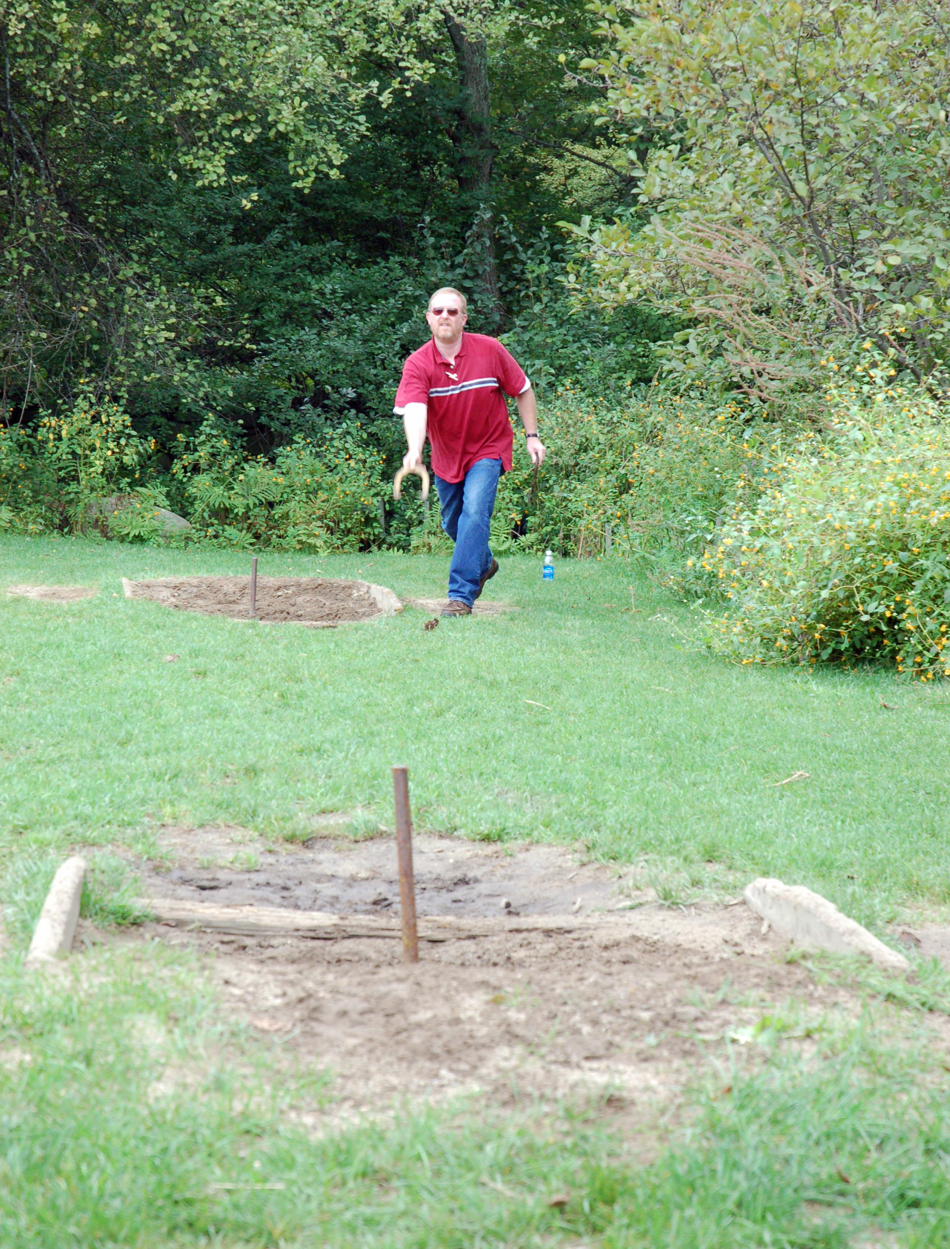 A man playing horseshoes at Centre Village near Boston